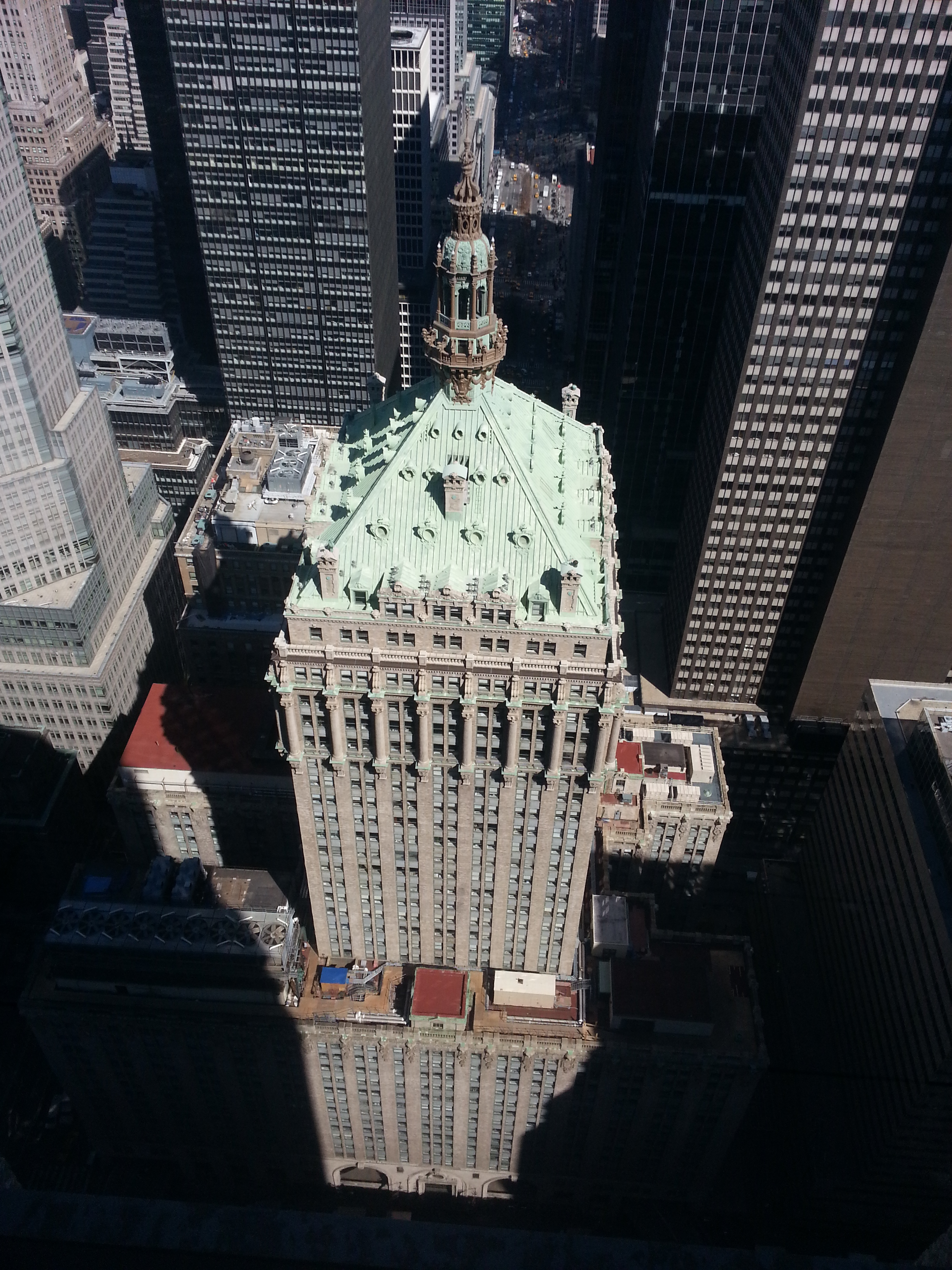 A picture taken of the Helmsley Building from 200 Park Avenue (the MetLife Building)